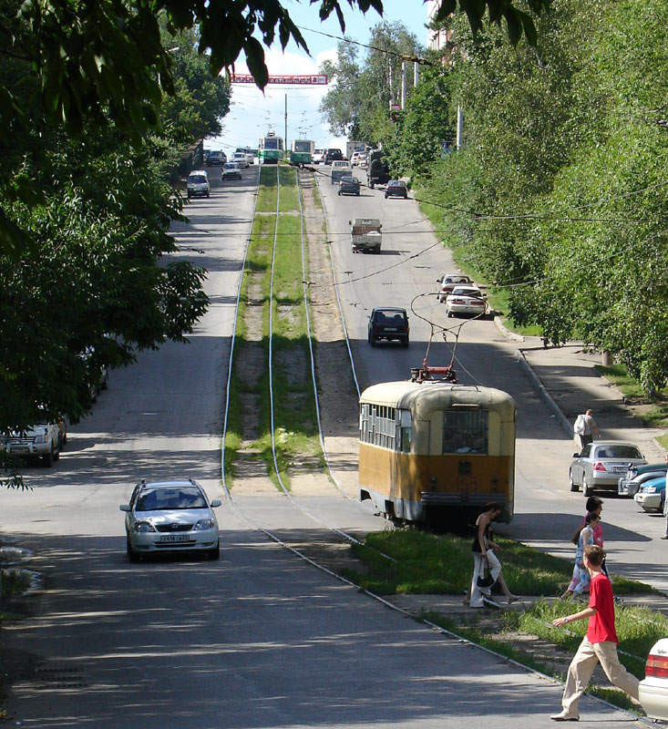 Khabarovsk, Russia, trams on a hill